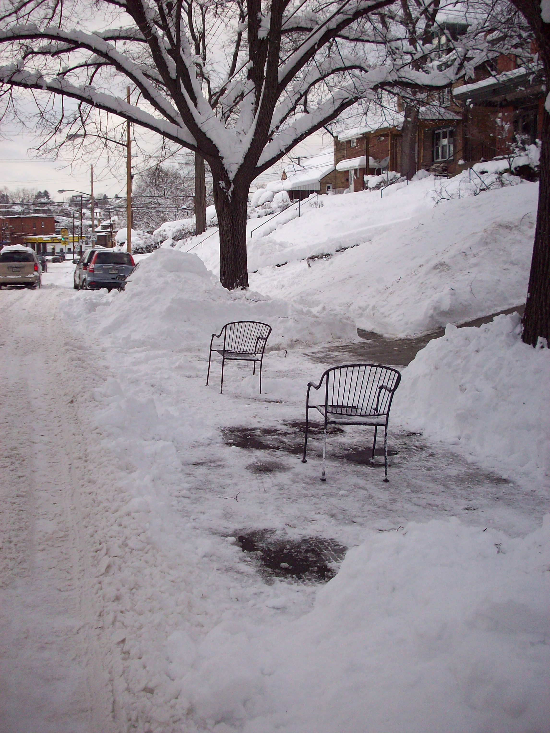 Pittsburgh residents may reserve street parking places they've cleared out from snow using furniture or other objects. These two chairs mark a street space in Squirrel Hill.